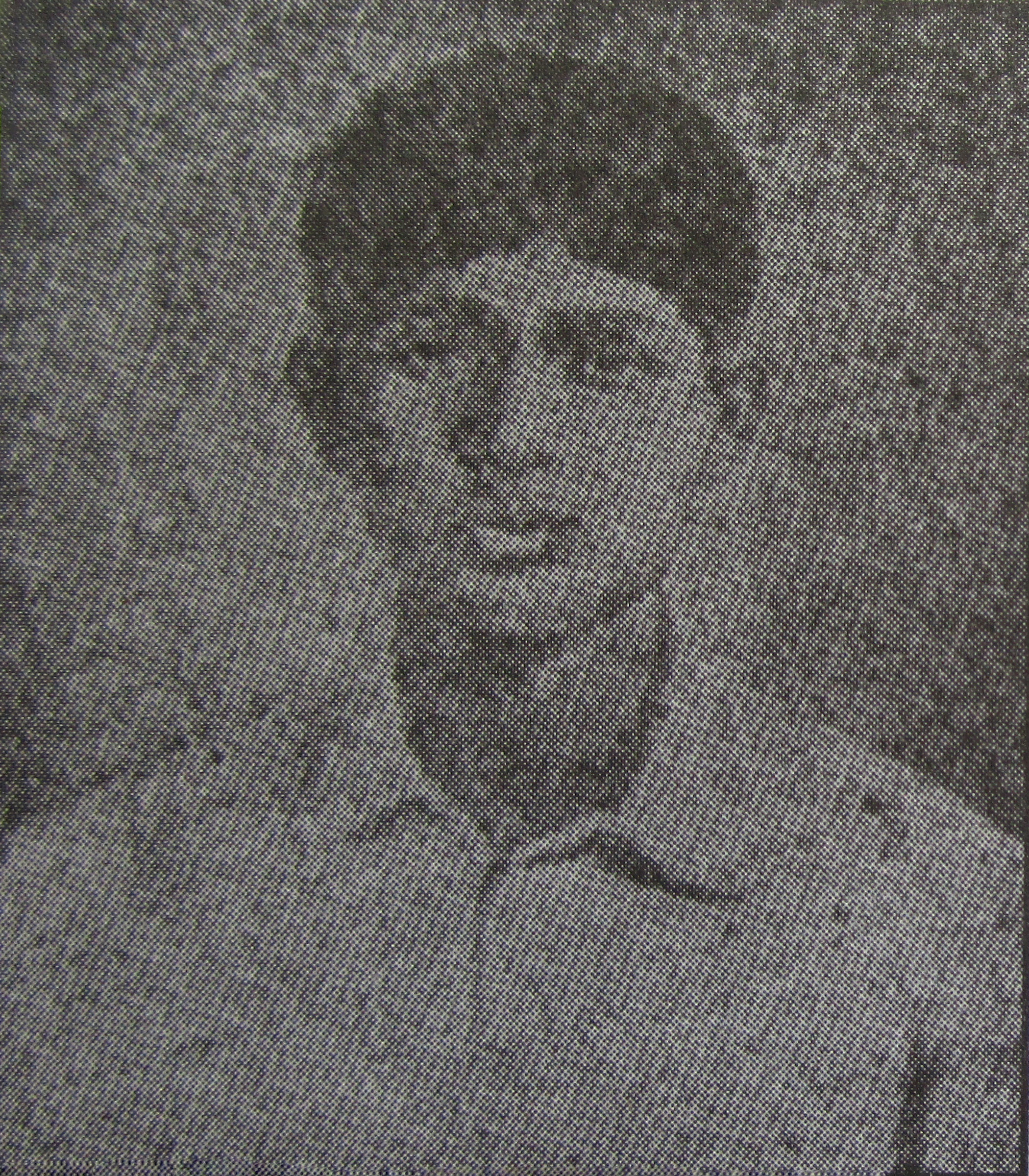 Ashutosh Kuila